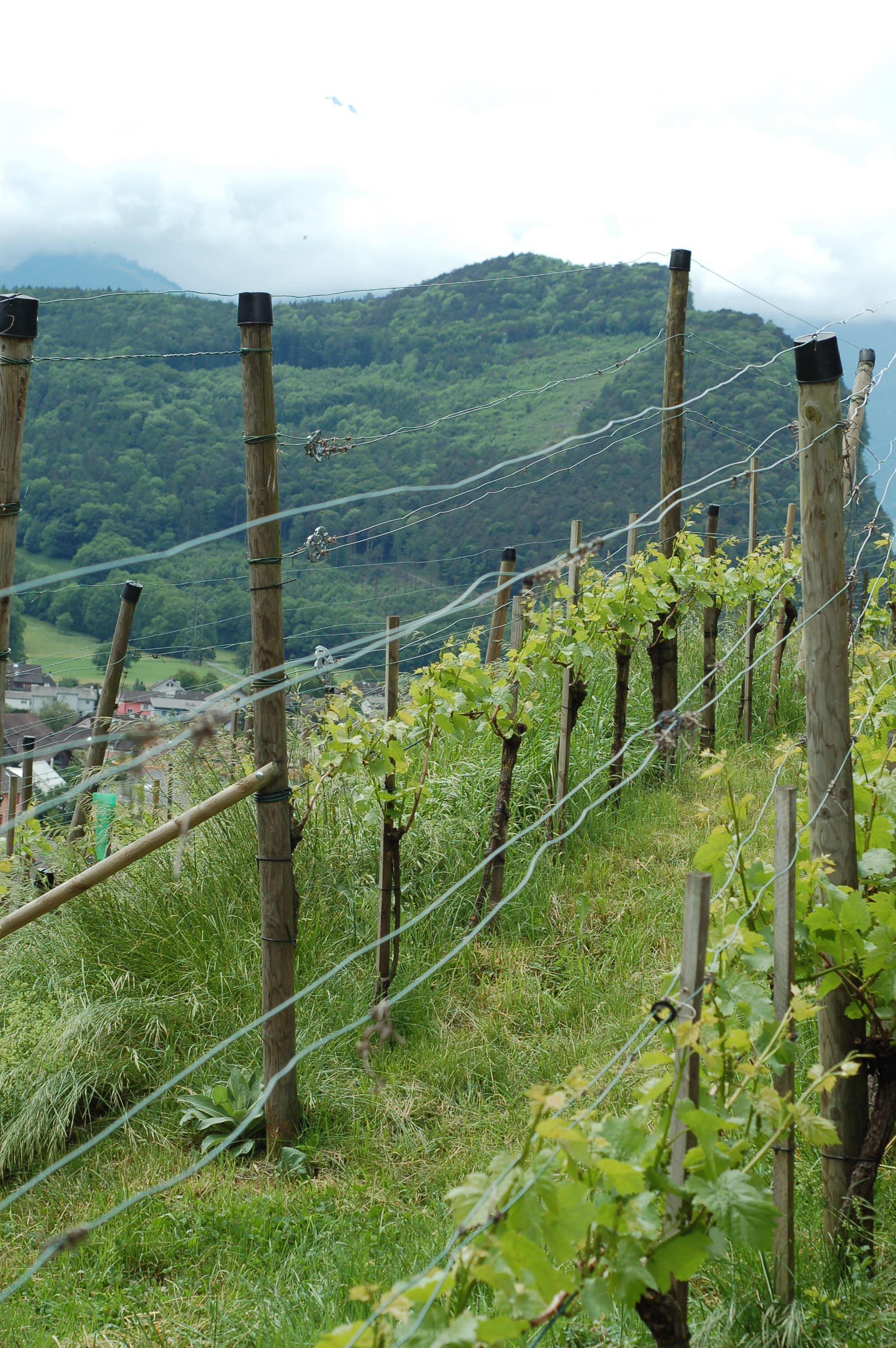 Wineyard at Gutenberg castle in Balzers, Liechtenstein